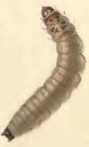 Stainton’s Natural History of the Tineina (1855–1873): Coleophora artemisicolella